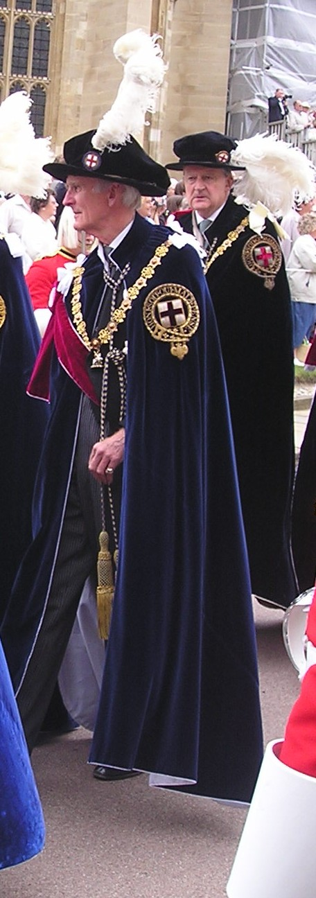 Sir Antony Acland wearing his robes as a Knight Companion of the Order of the Garter, in procession to St George's Chapel, Windsor Castle for the annual service of the Order of the Garter. In the background is the Duke of Abercorn.